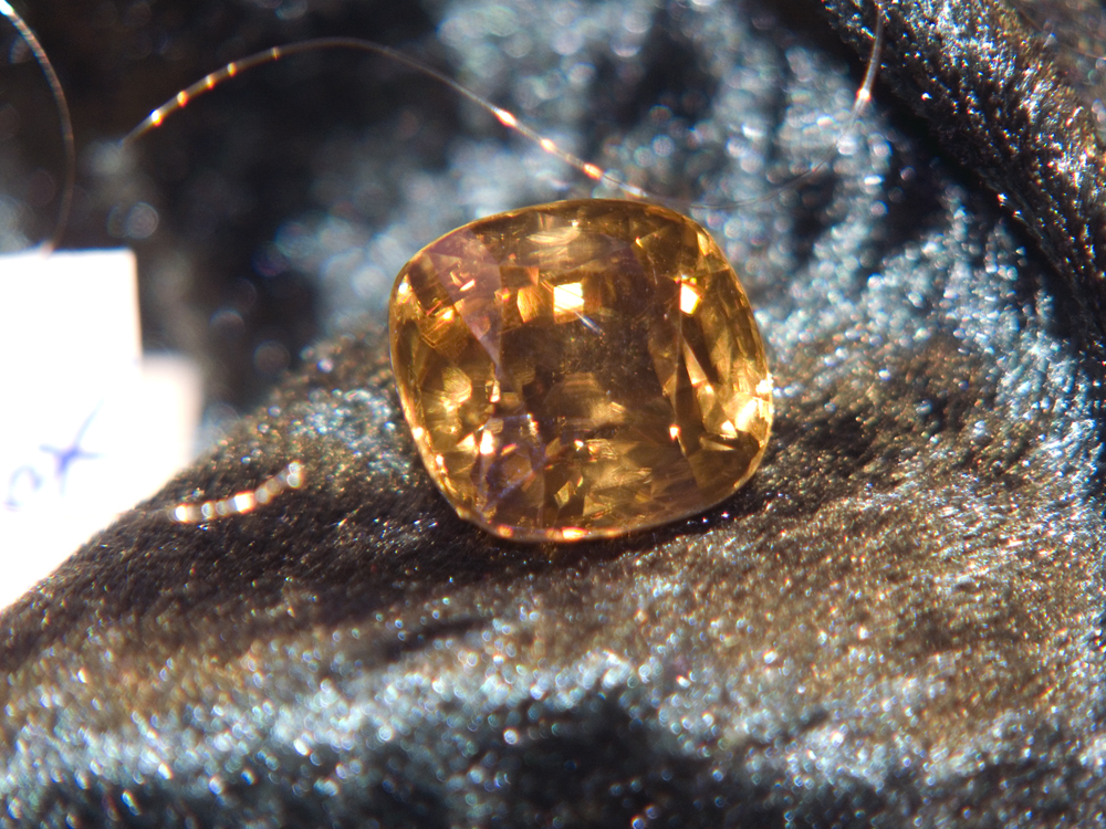 Zircon, cutted